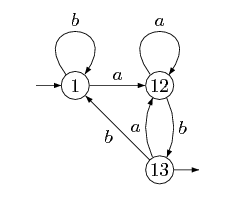 The deterministic trim automaton